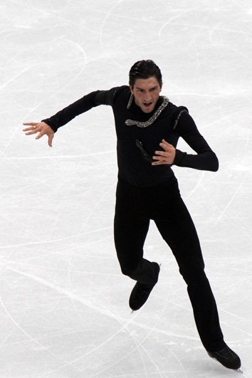 Evan Lysacek.